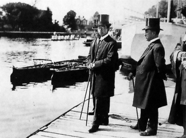 Crown Prince Hirohito watching a boat race at Oxford University. (Michi-no-miya Hirohito/Emperor Shōwa)